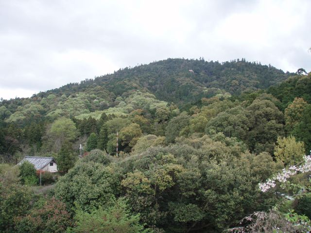 Mount Miwa, photographed from Yashiro observatory in Omiwa.